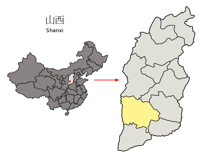 Location of Linfen Prefecture (yellow) within Shanxi Province of China Map drawn in december 2007 using various sources, mainly : Shanxi Province administrative regions GIS data: 1:1M, County level, 1990 Shanxi Counties map from